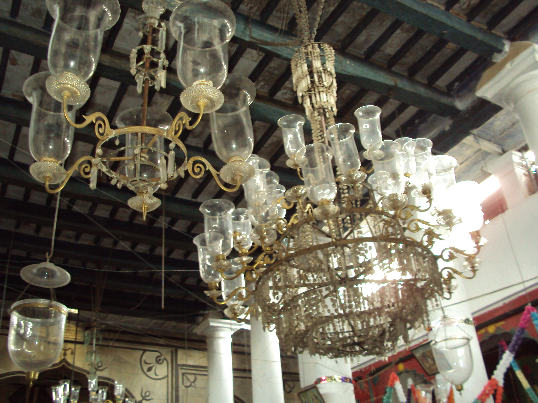 Chandeliors at Nashipur Akhara